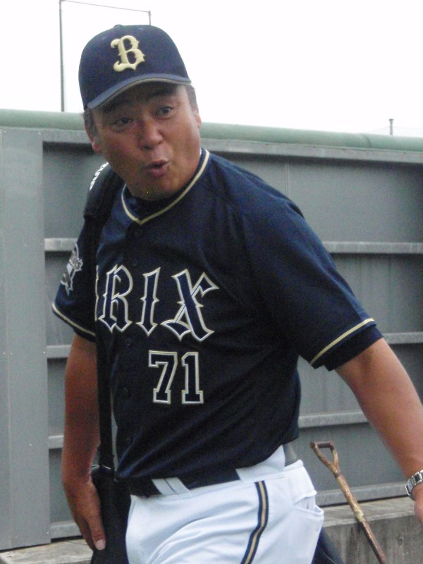 Yasuo Fujii at Tokyo Yakult Swallows Toda Baseball Ground